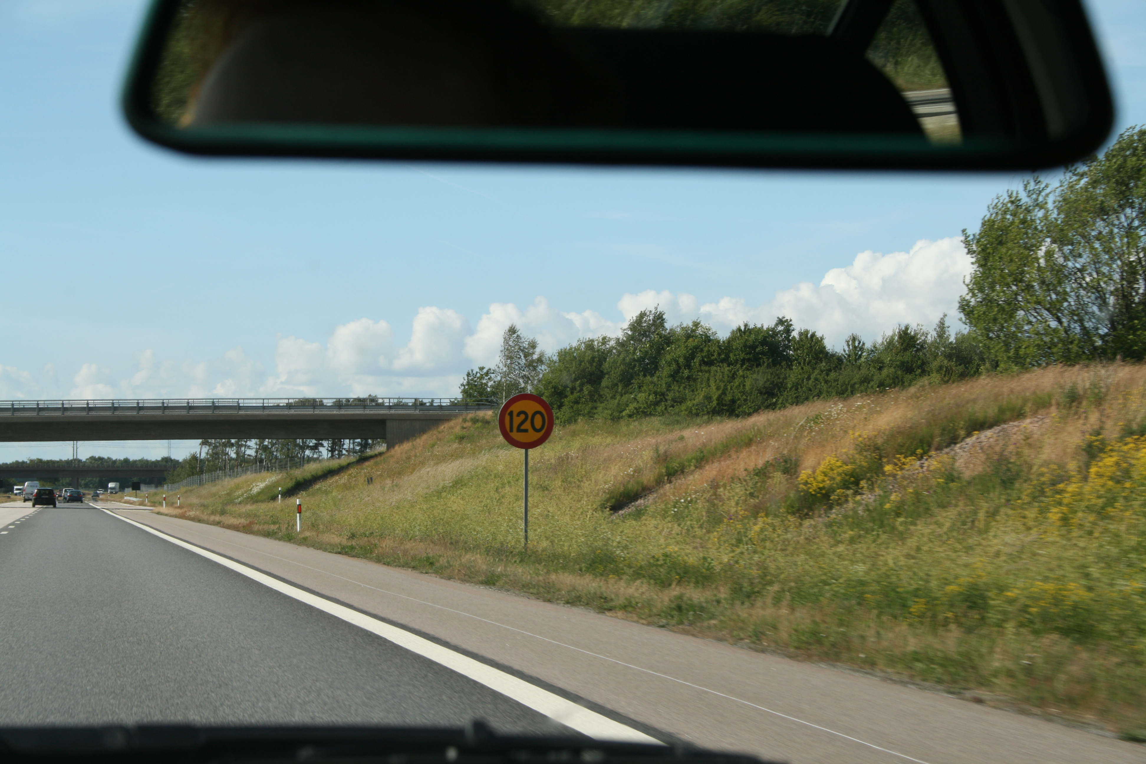 Swedish speed limit sign